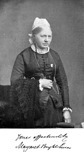 Image of Margaret Bright Lucas